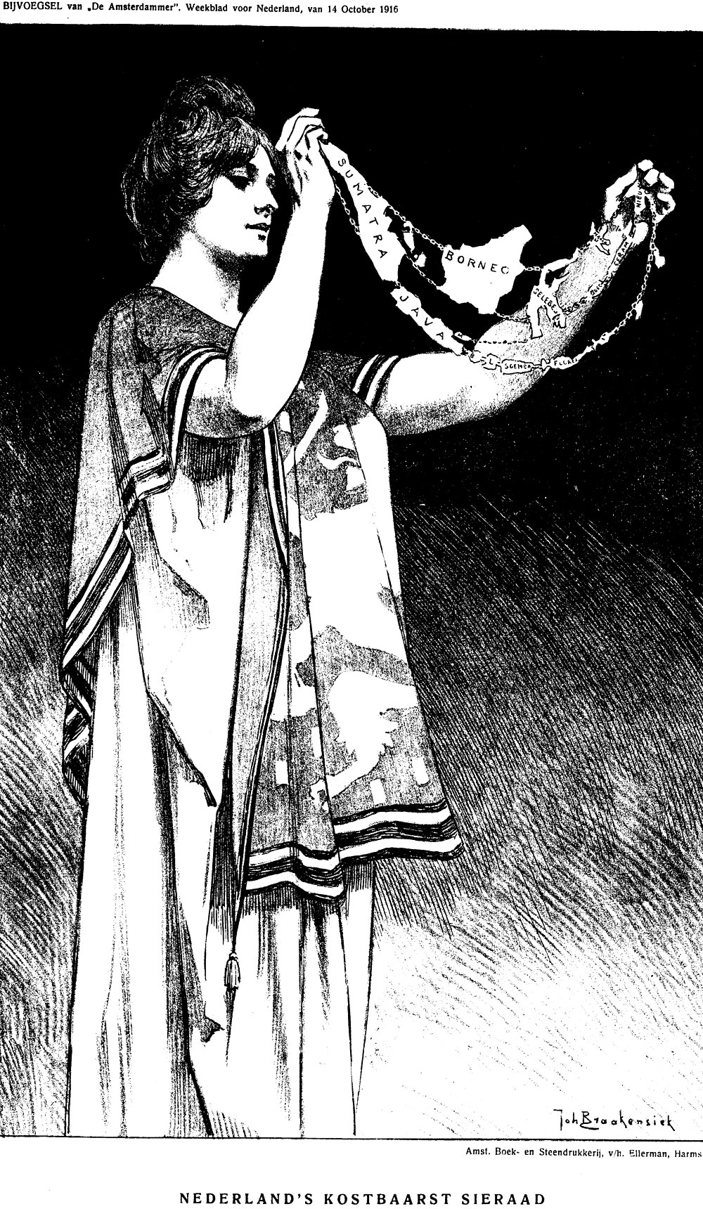 Close up of artwork representing the Netherlands Empire holding its crown jewel: the colonial Dutch East Indies (Now: Indonesia). Text: "Nederland's kostbaarst sieraad", "Netherlands most precious jewel". Dutch imperial art by Joh.Braakensiek, printed by Ellerman Harms and published dd. 1916-10-14 in newspaper 'De (Groene) Amsterdammer', the Netherlands.